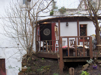 Picture taken from the garden of Tchai-Ovna's Westend shop.